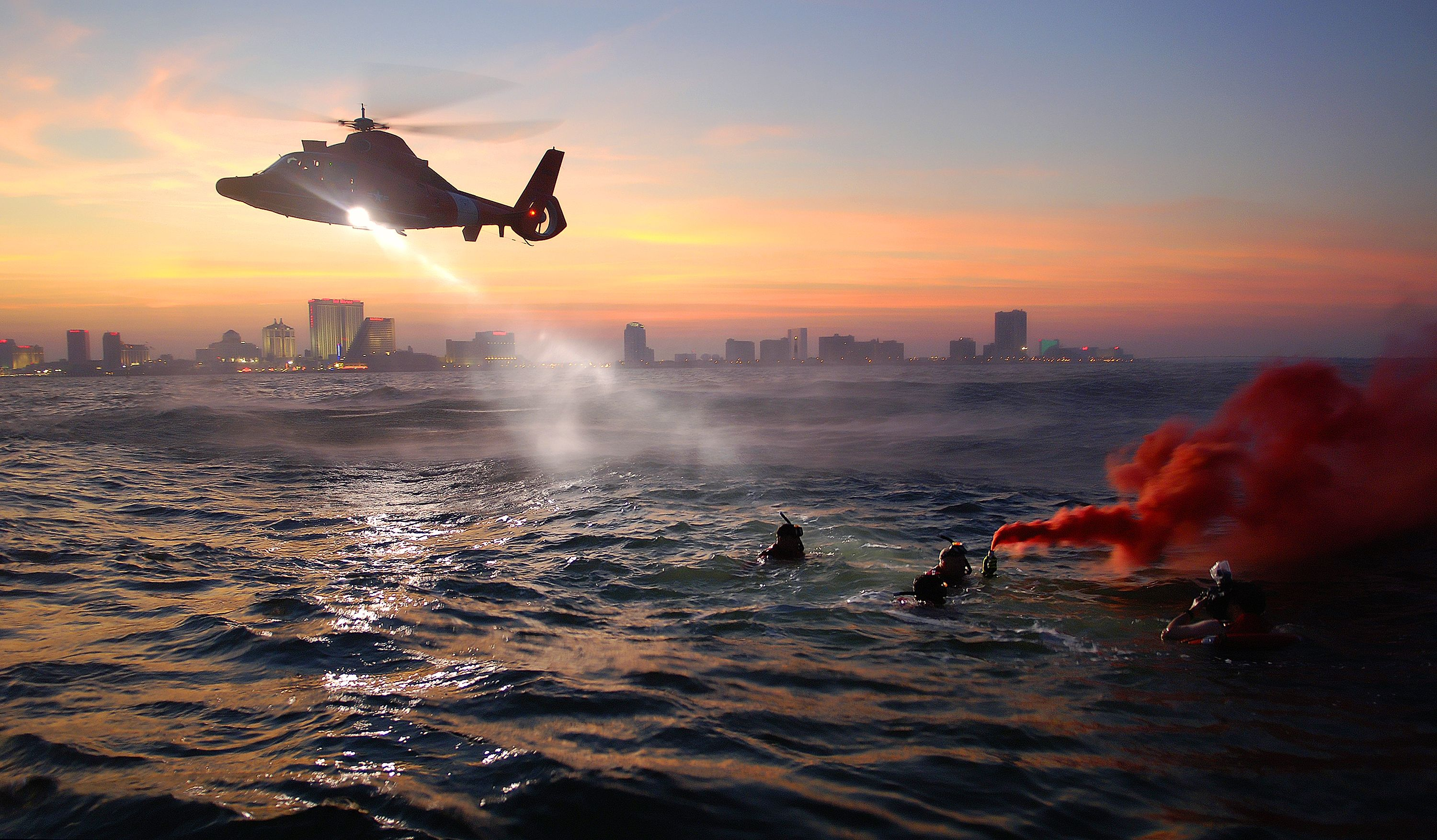 Description: Coast Guard rescue swimmers from Coast Guard Air Station Atlantic City train off the coast of Atlantic City, NJ, Sept. 18, 2006.